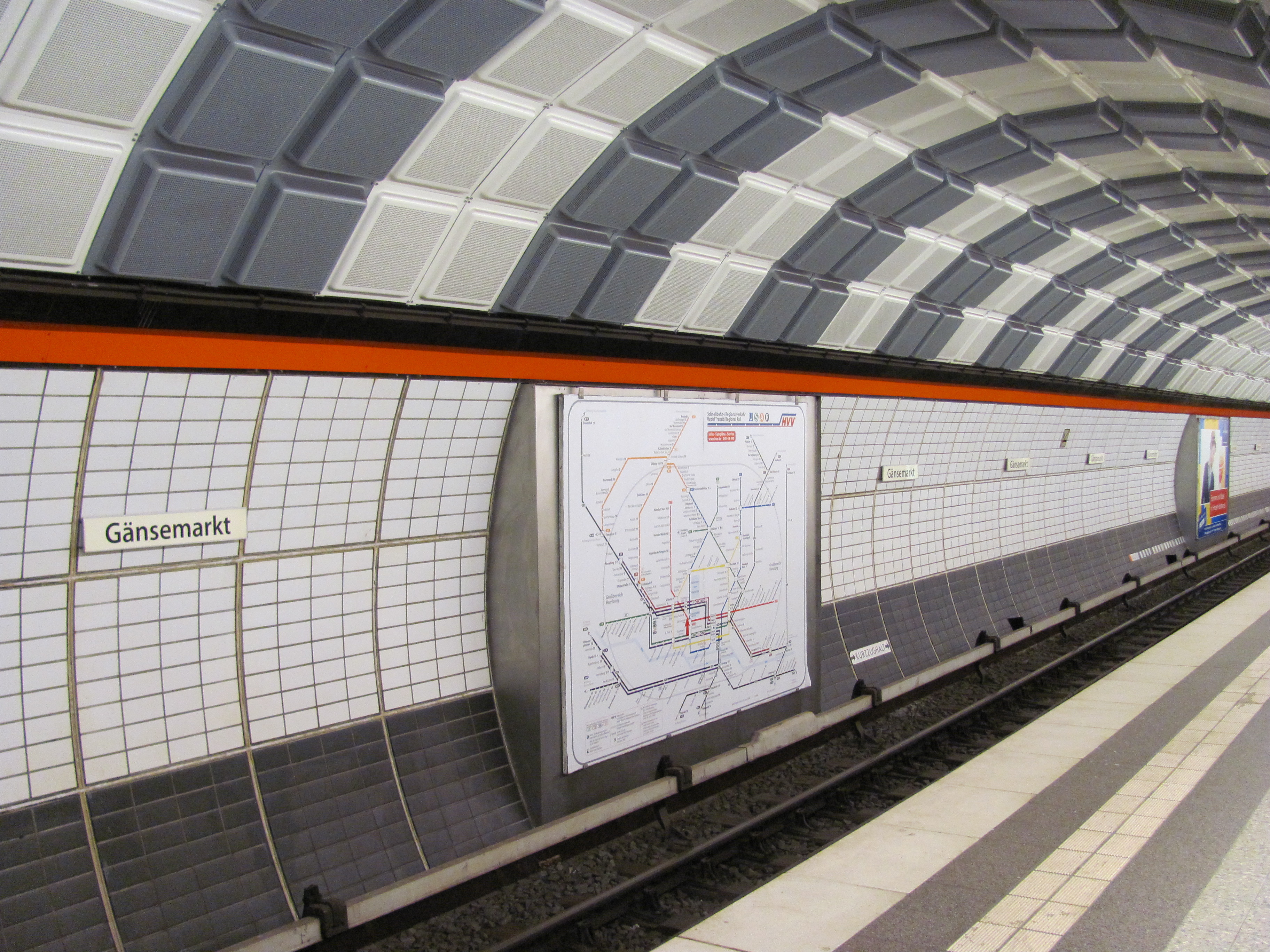 U-Bahn station Gänsemarkt in Hamburg, Germany